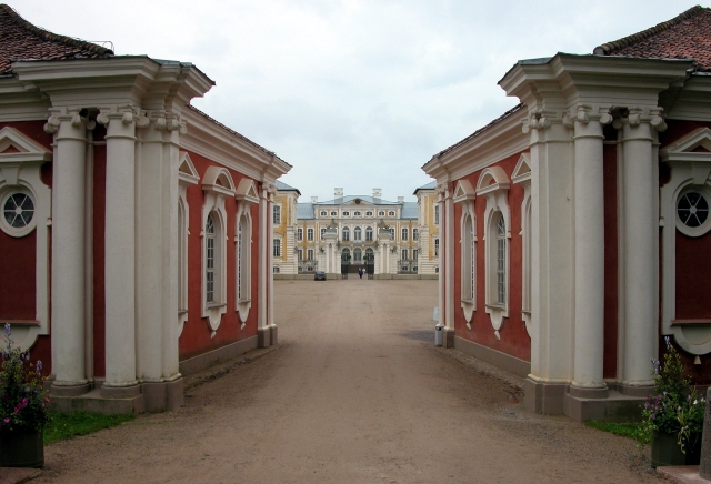 Pilsrundāle, Latvia: Entrance to the Rundale Palace, the seat of the sovereign Dukes of Courland.